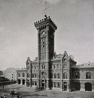 Erottaja fire station, Helsinki